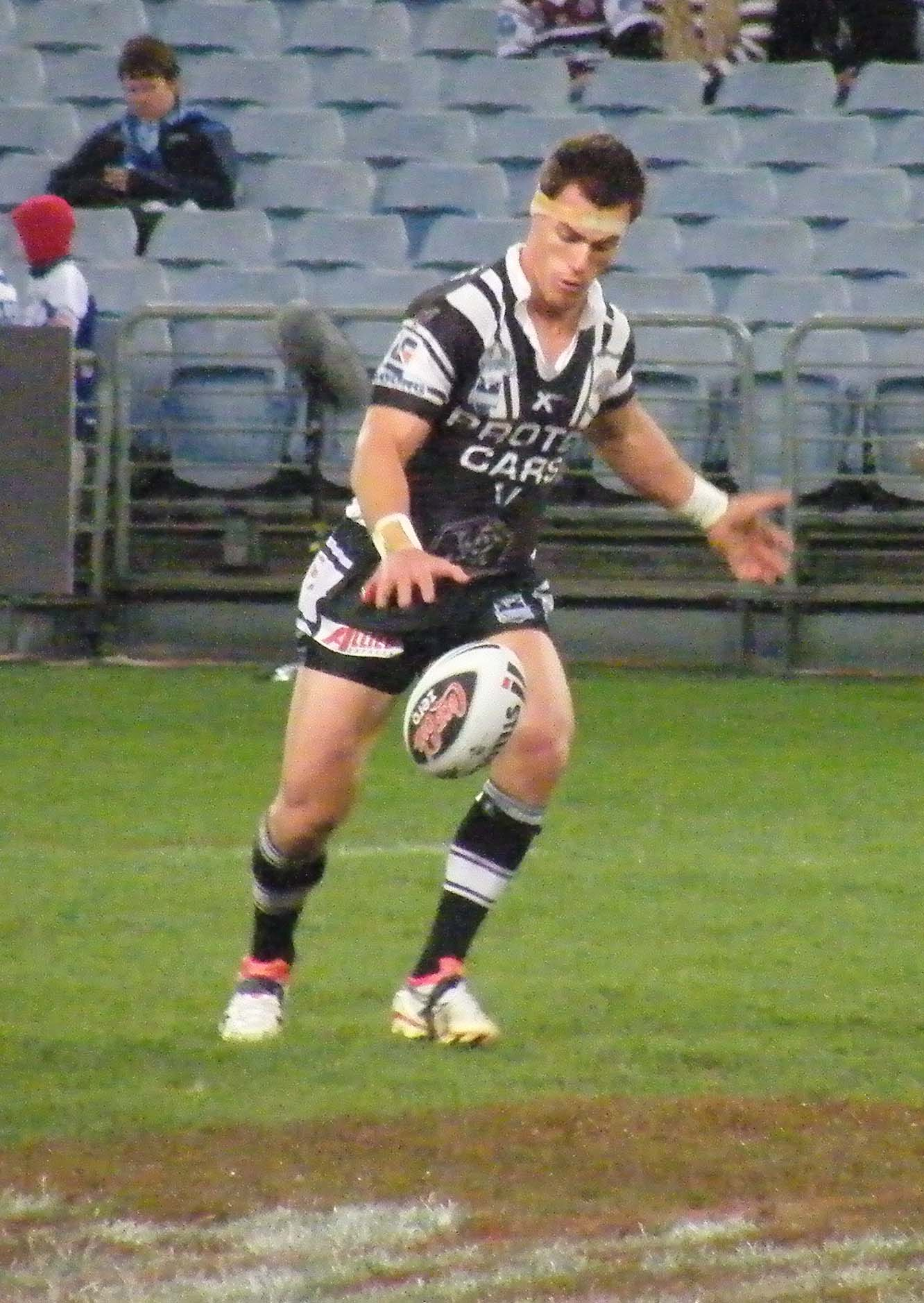 John Morris of the Wests Tigers